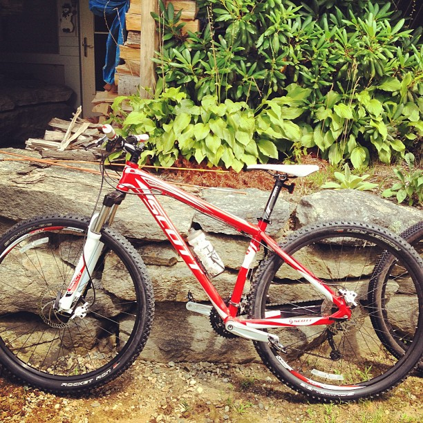 Moutain Bike Scott Scale Comp 29er, 2012